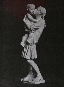 "Her Only Brother" by Abastenia St. Leger Eberle, from a 1921 publication.